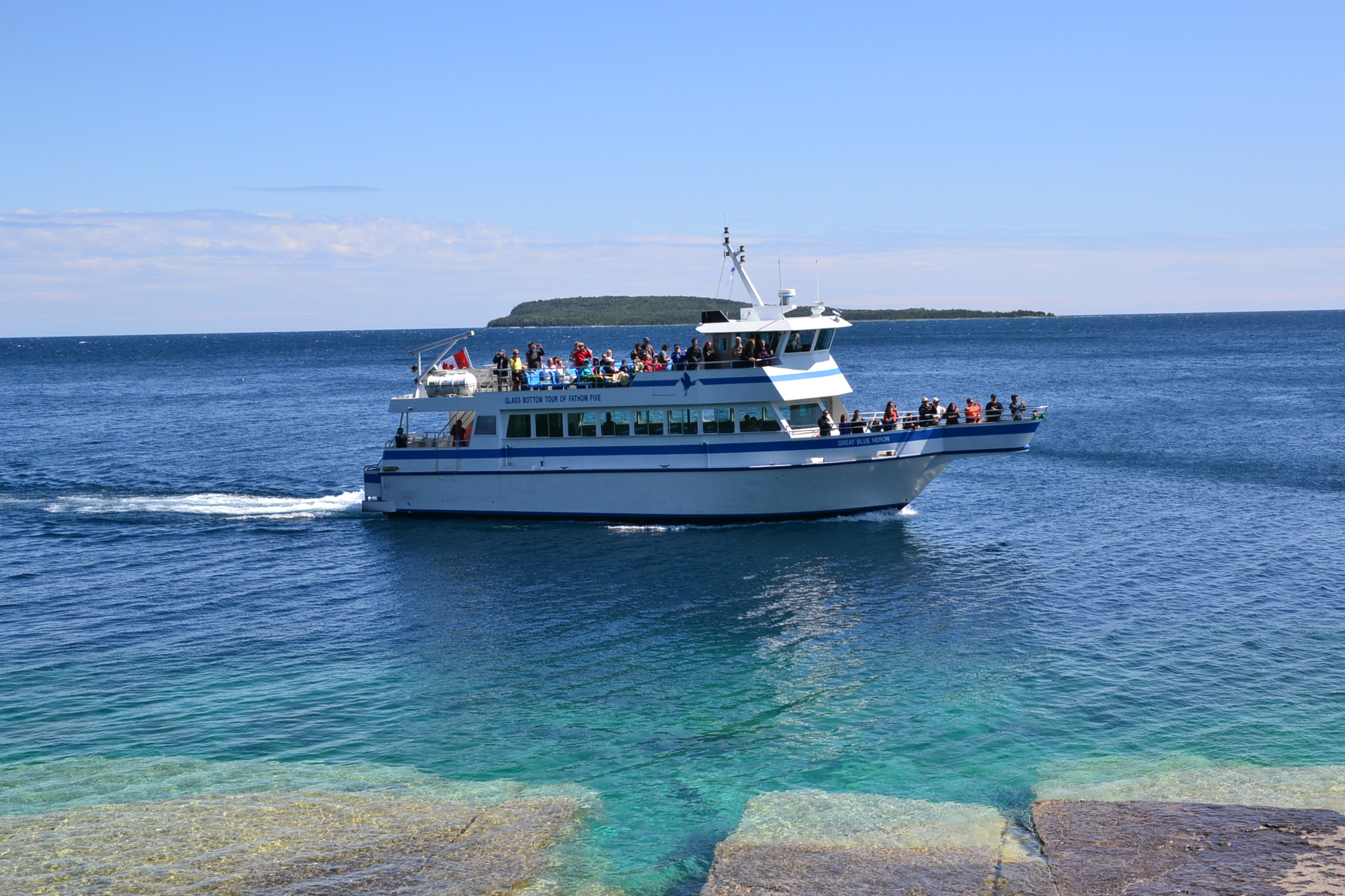 Touristic boat near the Flowerpot Island